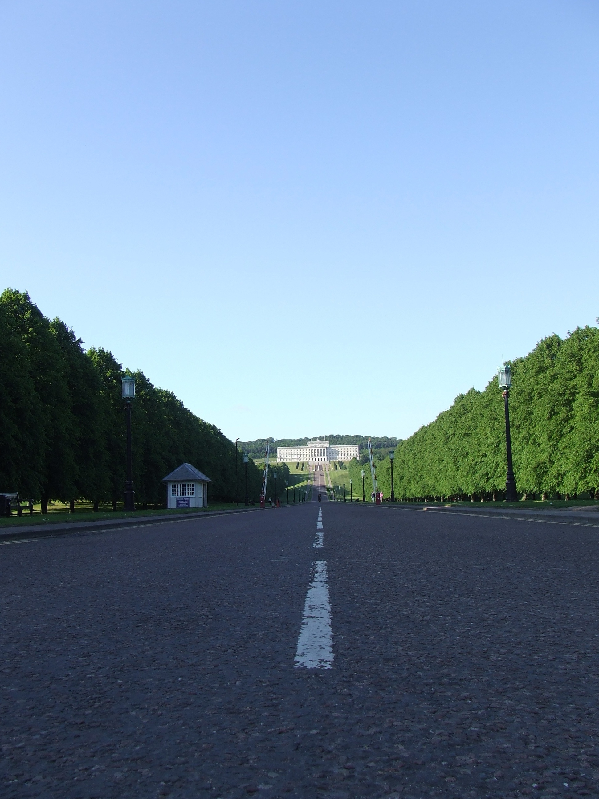 The Mile at Parliament Buildings, Stormont, Belfast